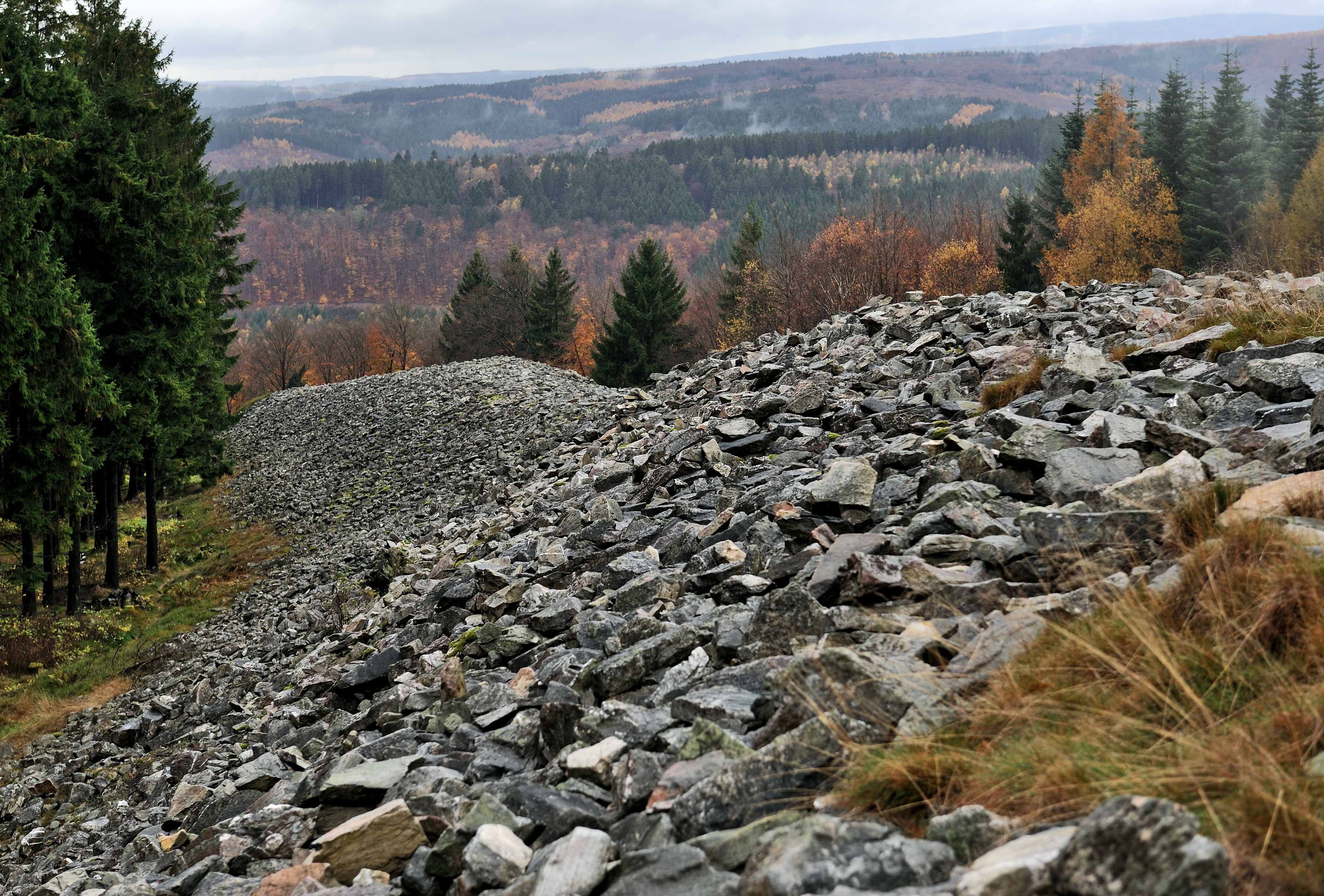 The Celtic circular wall of Otzenhausen, Saarland, Germany